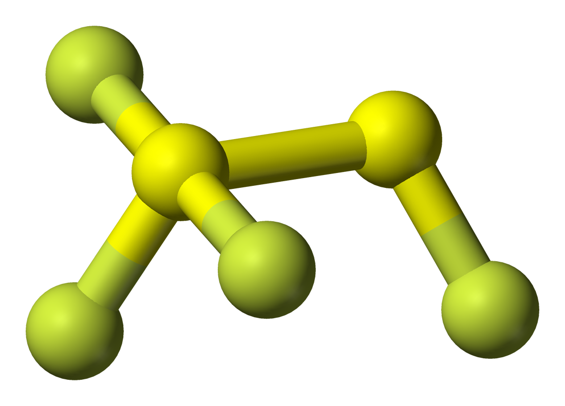 Ball-and-stick model of the unsymmetrical disulfur tetrafluoride molecule, FSSF3.